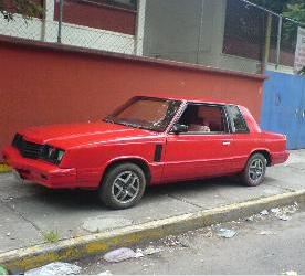 1985 Magnum Turbo by Chrysler. One of the first turbocharged cars sold in Mexico